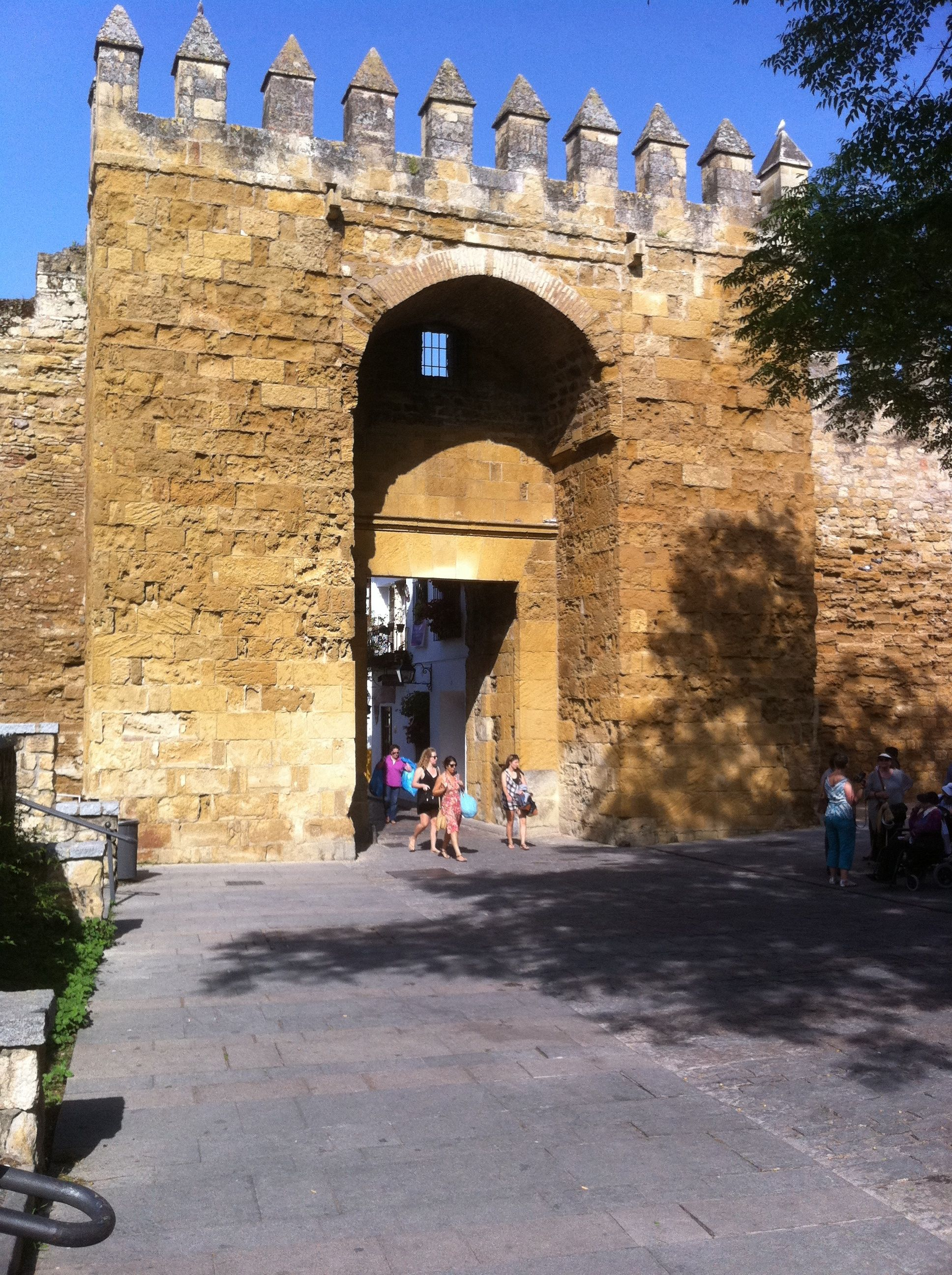 Almodóvar Gate in the defensive wall of Cairuán Street, Córdoba, Spain.